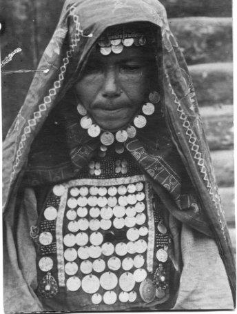 Bashkir